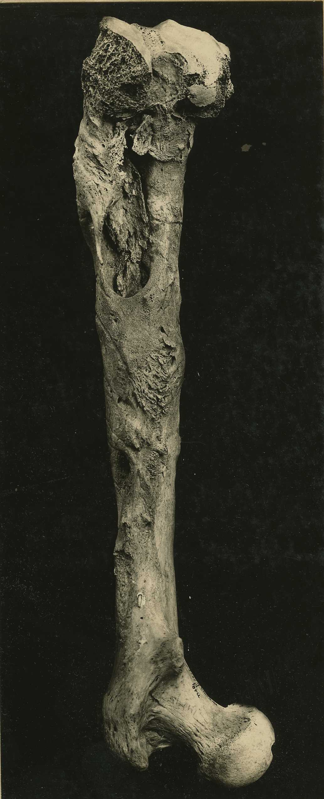 Femur. Osteomyelitis. From ancient cemetery, Chicama Valley, Peru ; Femur. Osteomyelitis. From ancient cemetery, Chicama Valley, Peru. (Bones. Indigenous peoples. Gross specimen) Path. [Pathology?] Series number 14195 Code: 152.616